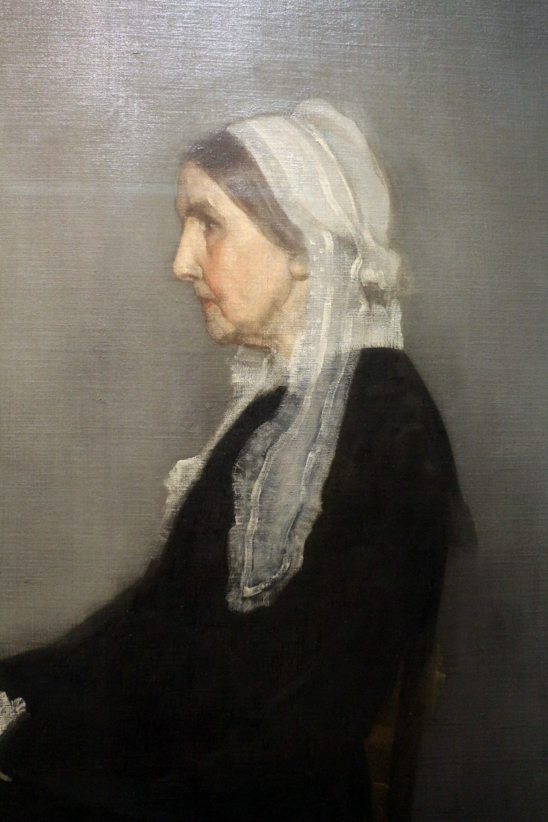 Paintings in Musée d'Orsay